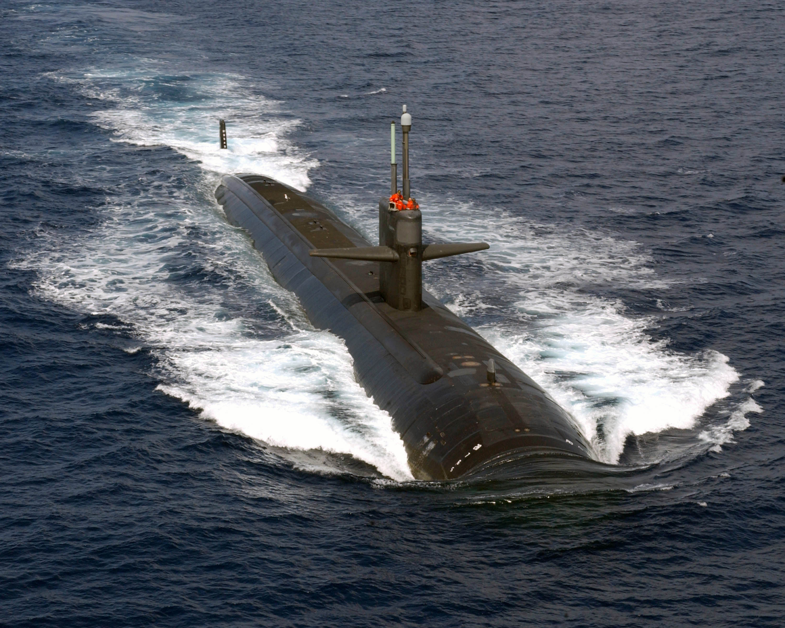 Pacific Ocean (Mar. 14, 2005) - The Los Angeles-class attack submarine USS Louisville (SSN 724) underway off the coast of southern California. Louisville is currently conducting a Joint Task Force Training Exercise (JTFEX) with Carrier Strike Group Eleven (CSG-11). U.S. Navy photo by Photographer's Mate 3rd Class Shannon E. Renfroe (RELEASED)